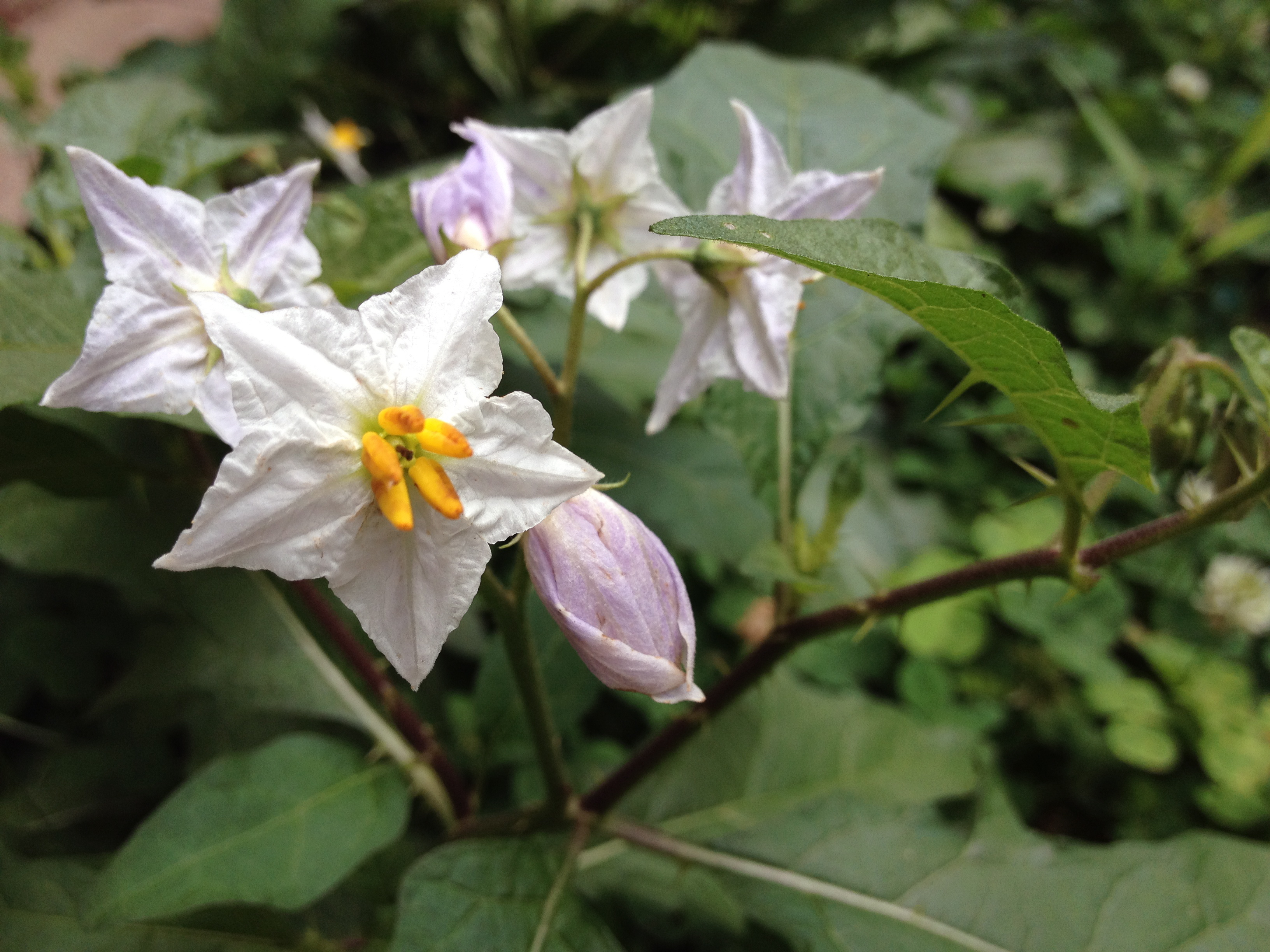 Photo of Solanum carolinense in flower. This is a native plant growing wild in Arlington county Virginia, USA. This species is a member of the Solanaceae family.